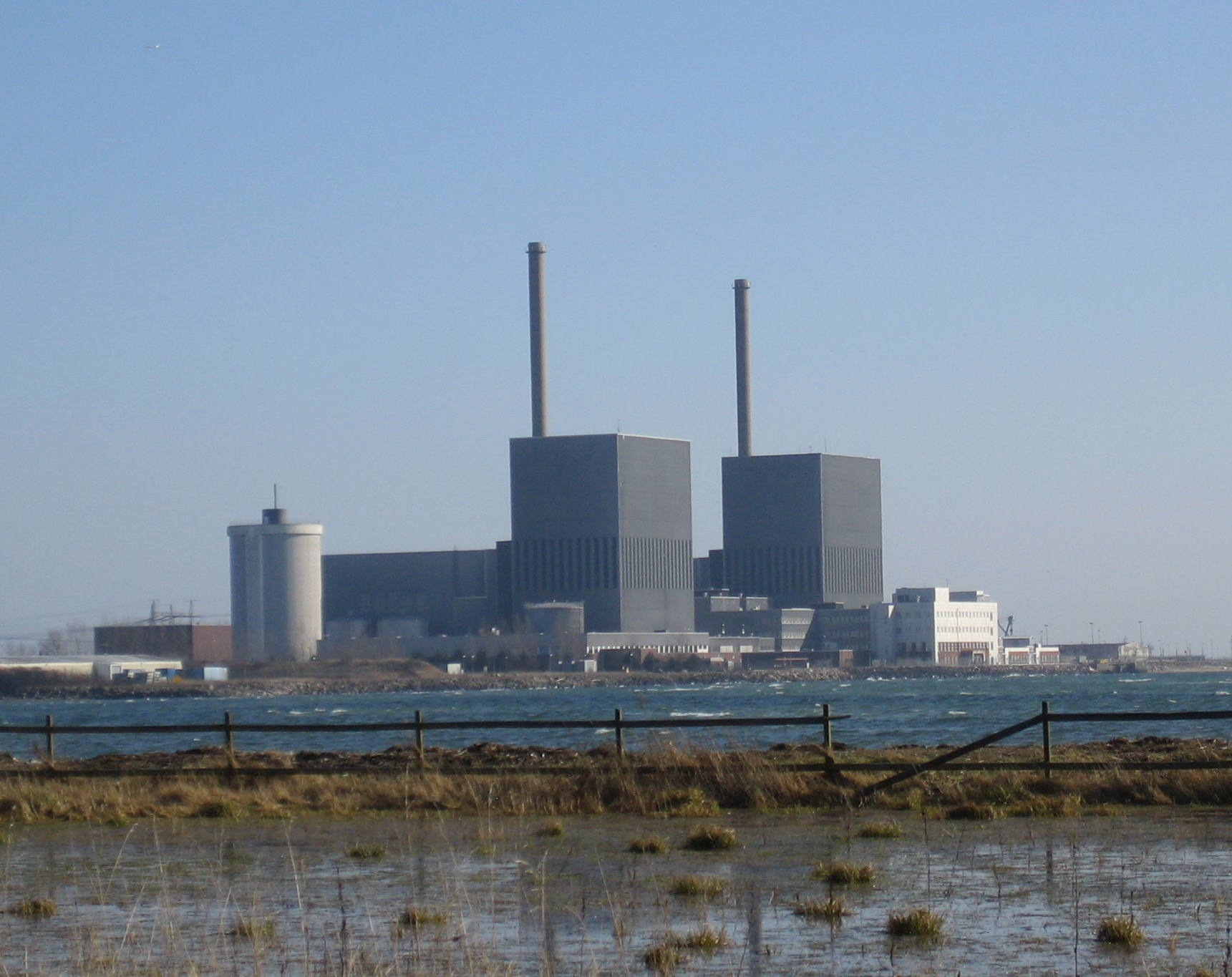 Barsebäck nuclear power plant in Skåne, Sweden